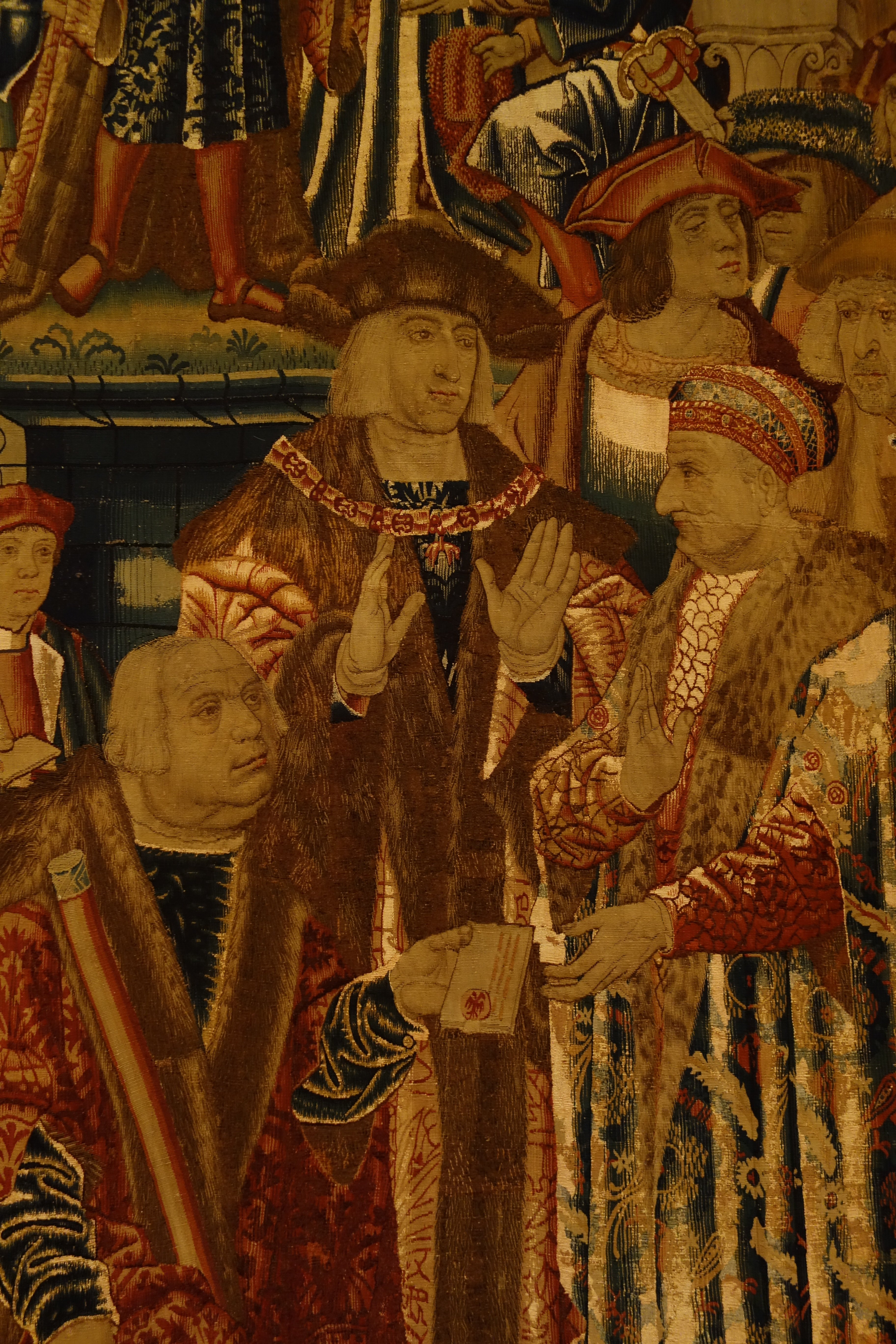 Detail of the last tapestry of the four-part series "Our Lady of the Zavel", attributed to the young Bernard van Orley. Francis of Taxis receives the postal charter from the hands of emperor Frederick III.